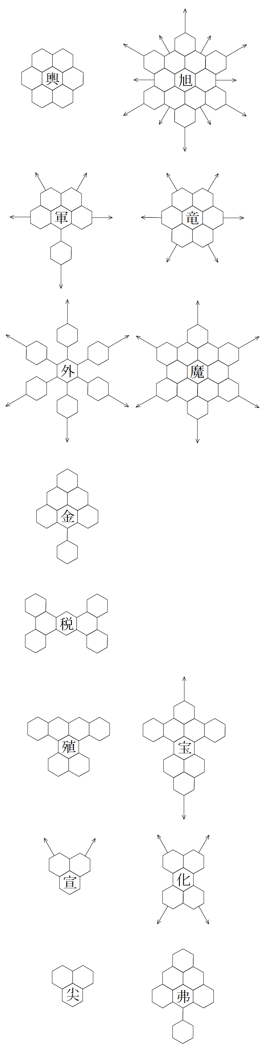 Movement of Sannin Shogi's pieces